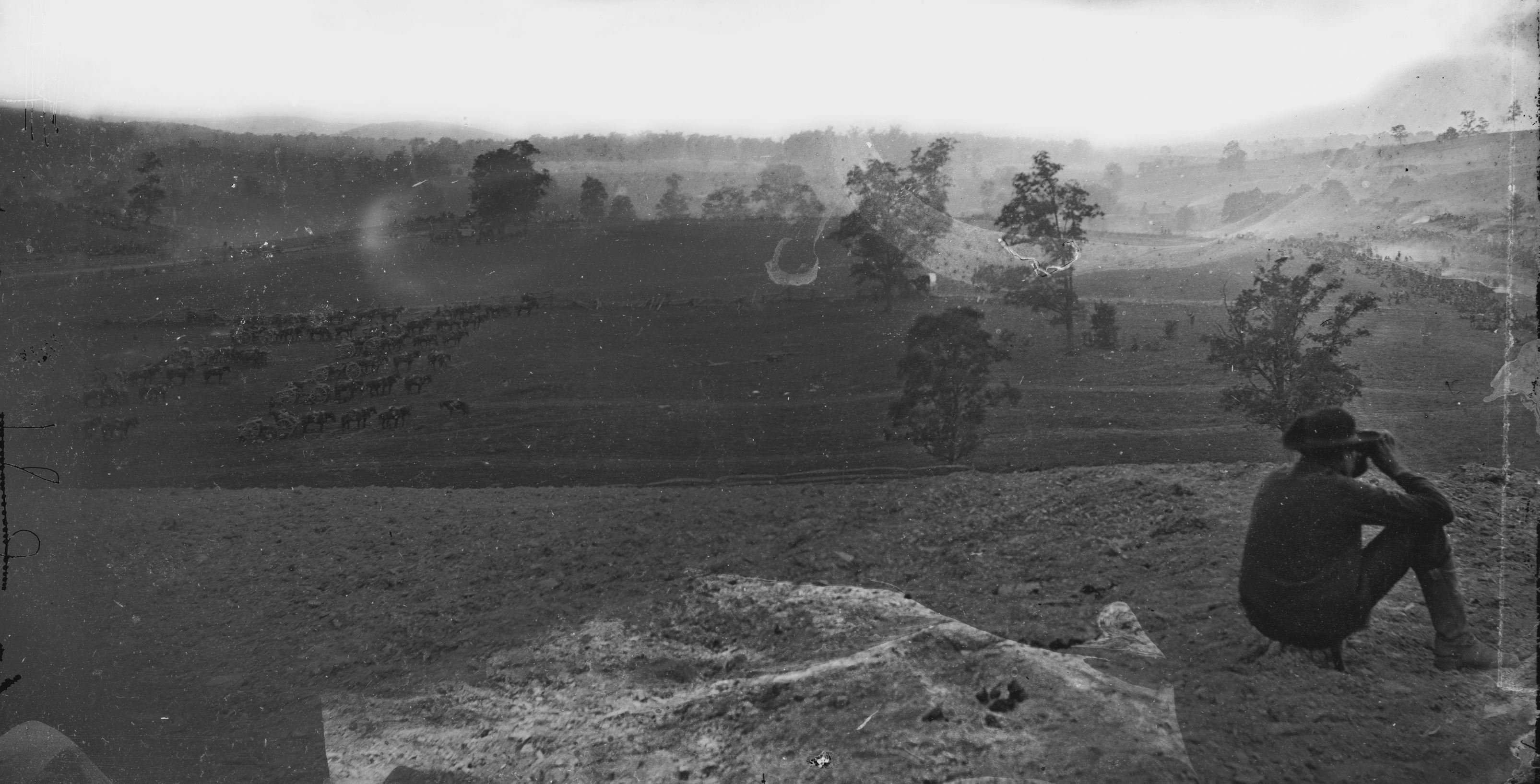 Undeployed reserve artillery in the fields near McClellan's Headquarters at the Phillip Pry House, likely taken two days after the battle. Looking east toward the Keedysville Pike.